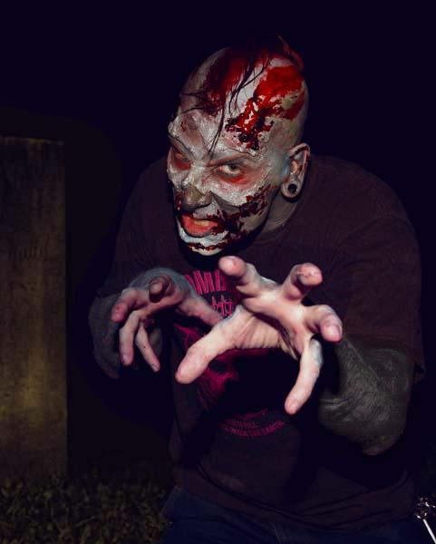 Picture of Dan Henk